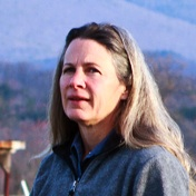 Karen Kwiatkowski in the Shenandoah Valley